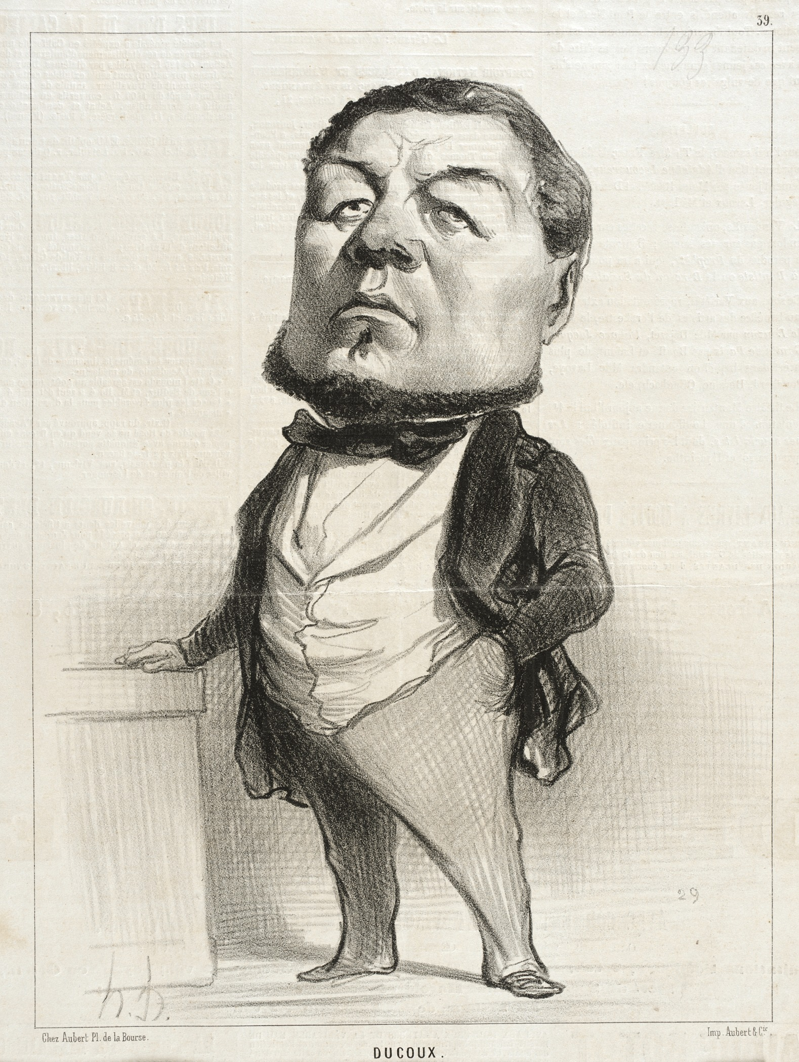 France, 1849 Series: Les Représentans Représentés Periodical: Le Charivari, 21 April 1849 Prints; lithographs Lithograph Gift of Mr. George Longstreet (M.60.19.13) Prints and Drawings